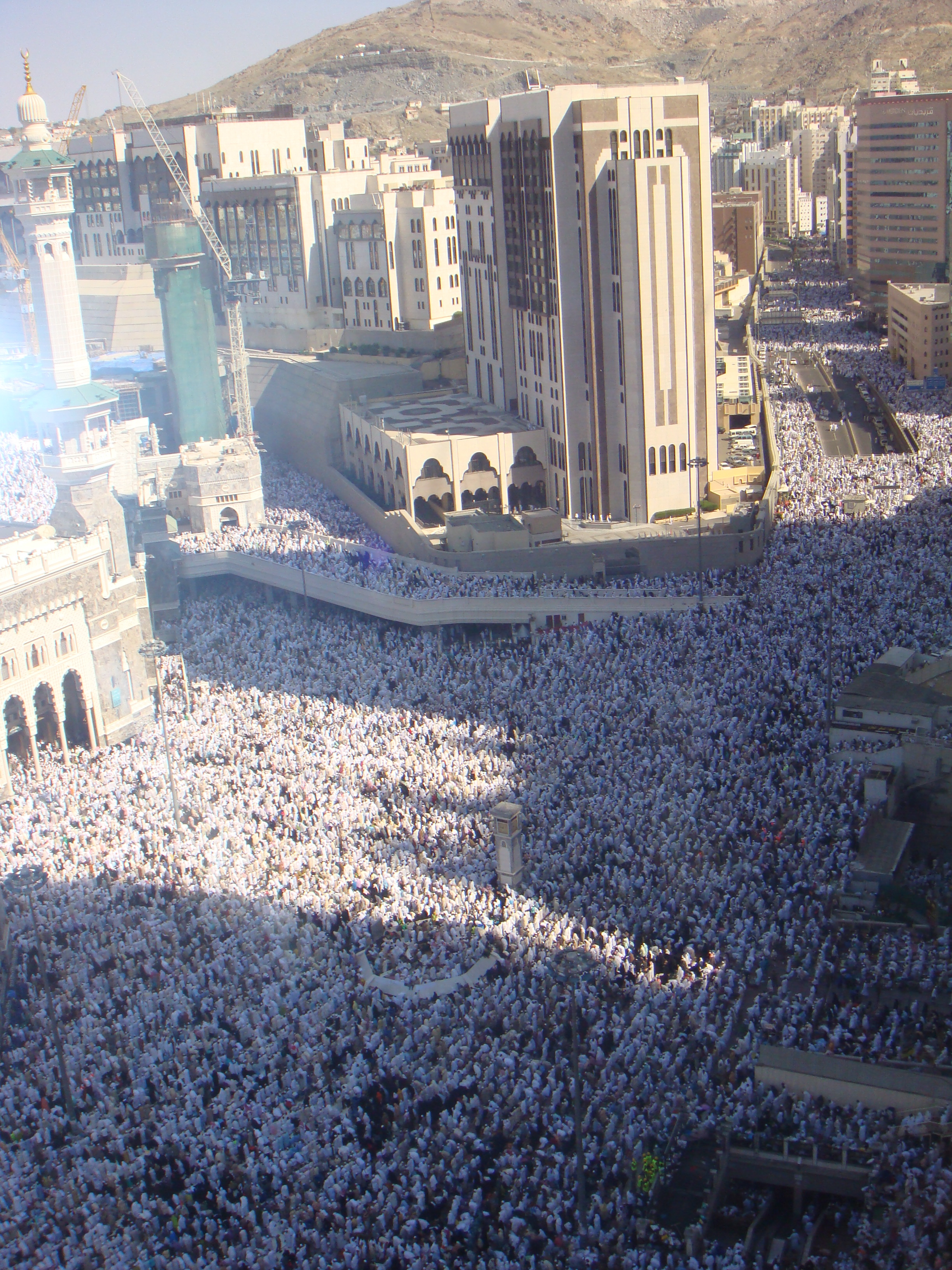 Al-Haram Mosque and surrounding streets are packed with worshippers at the start of Hajj